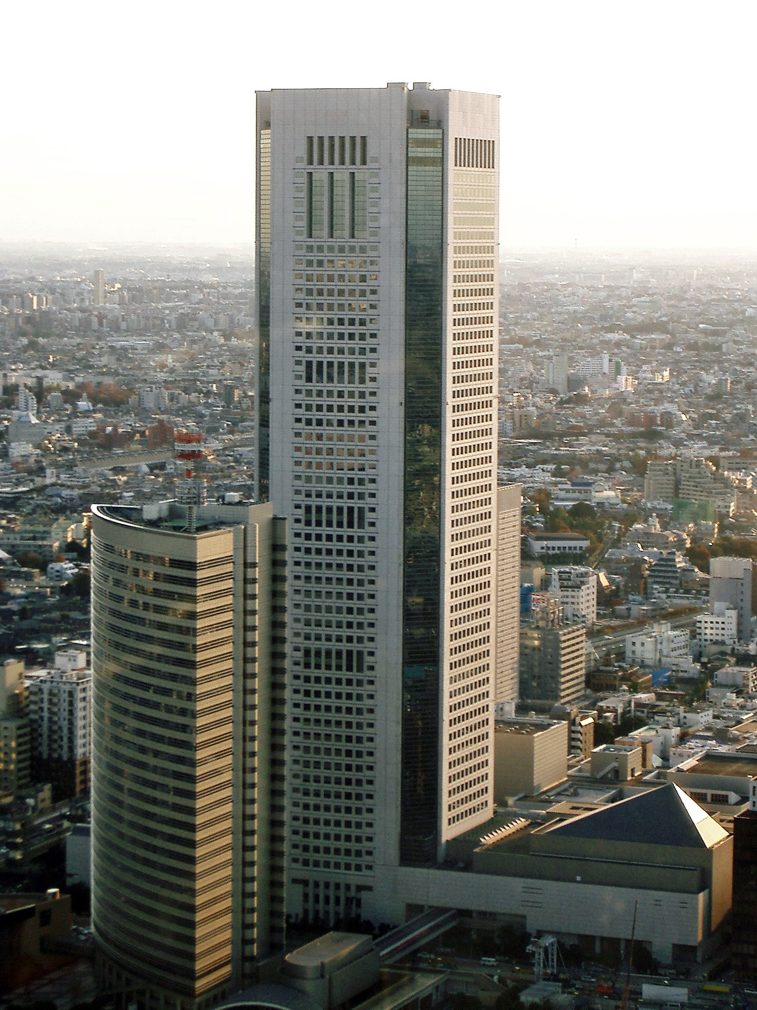 Tokyo Opera City (東京オペラシティ) seen from Tokyo City Hall (東京都庁舎)